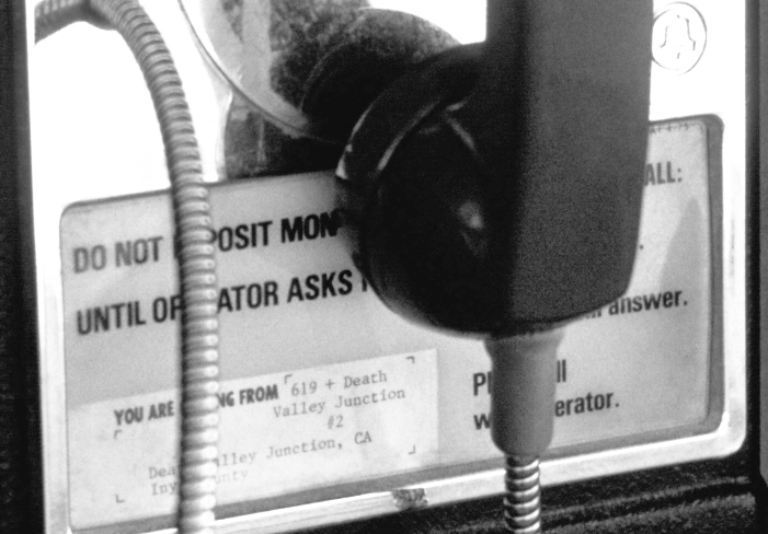 Photograph by David Jordan. Please credit the photographer when reusing this image.